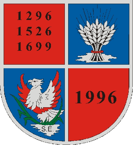 Coat of arms of Sárok, Hungary